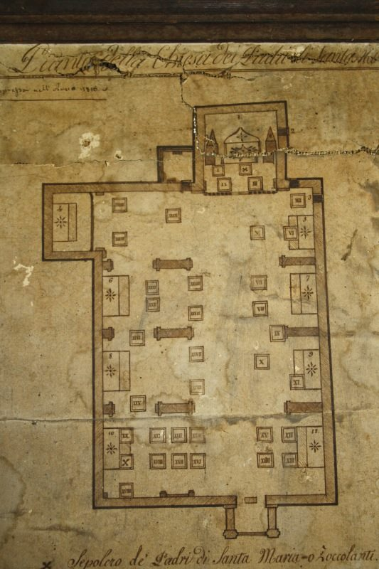 Curch layout